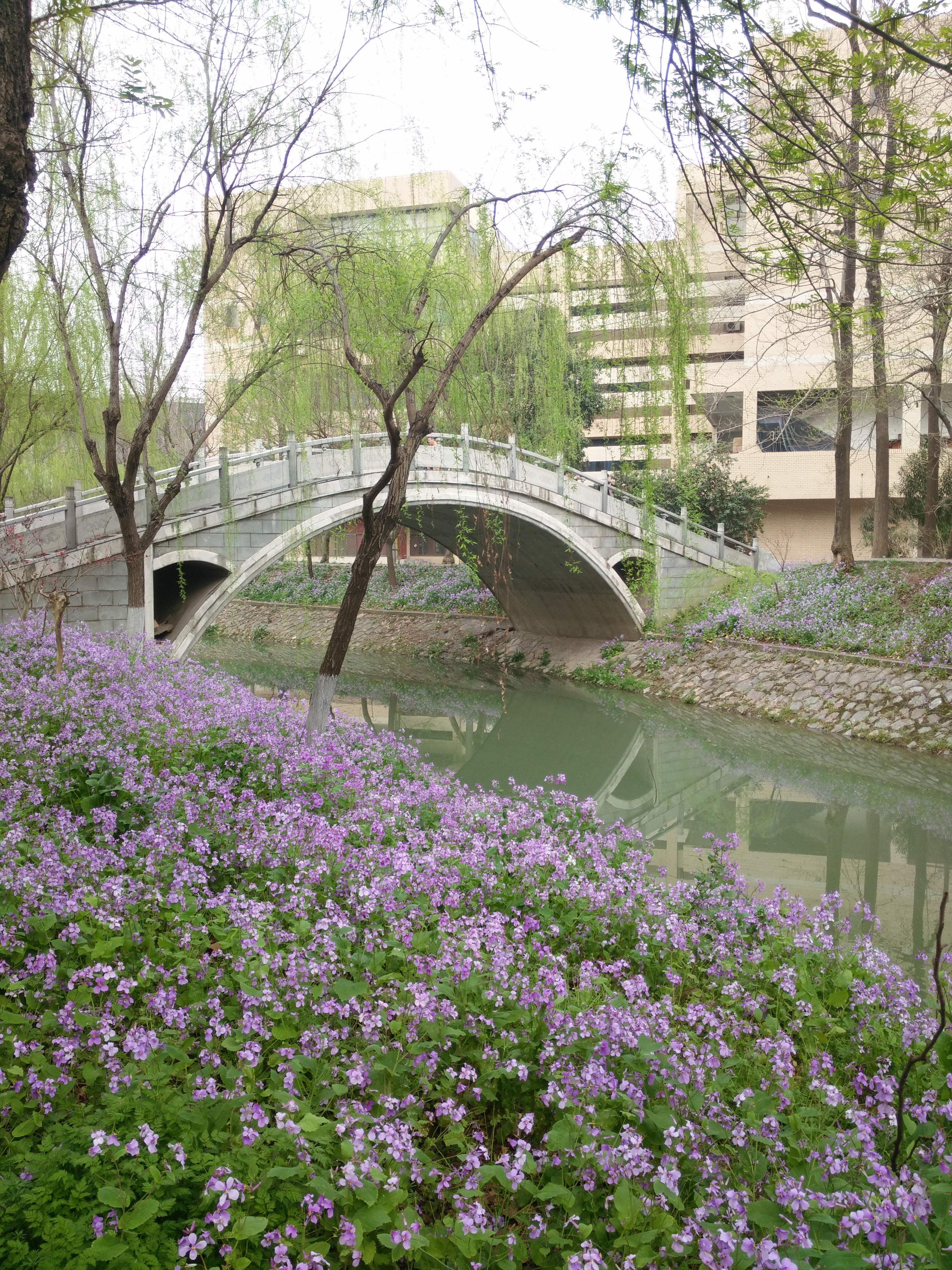 A place in NFU